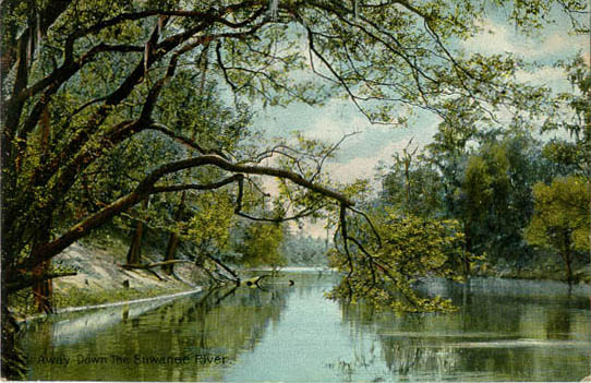 Postcard: "Away Down the Suwanee River"